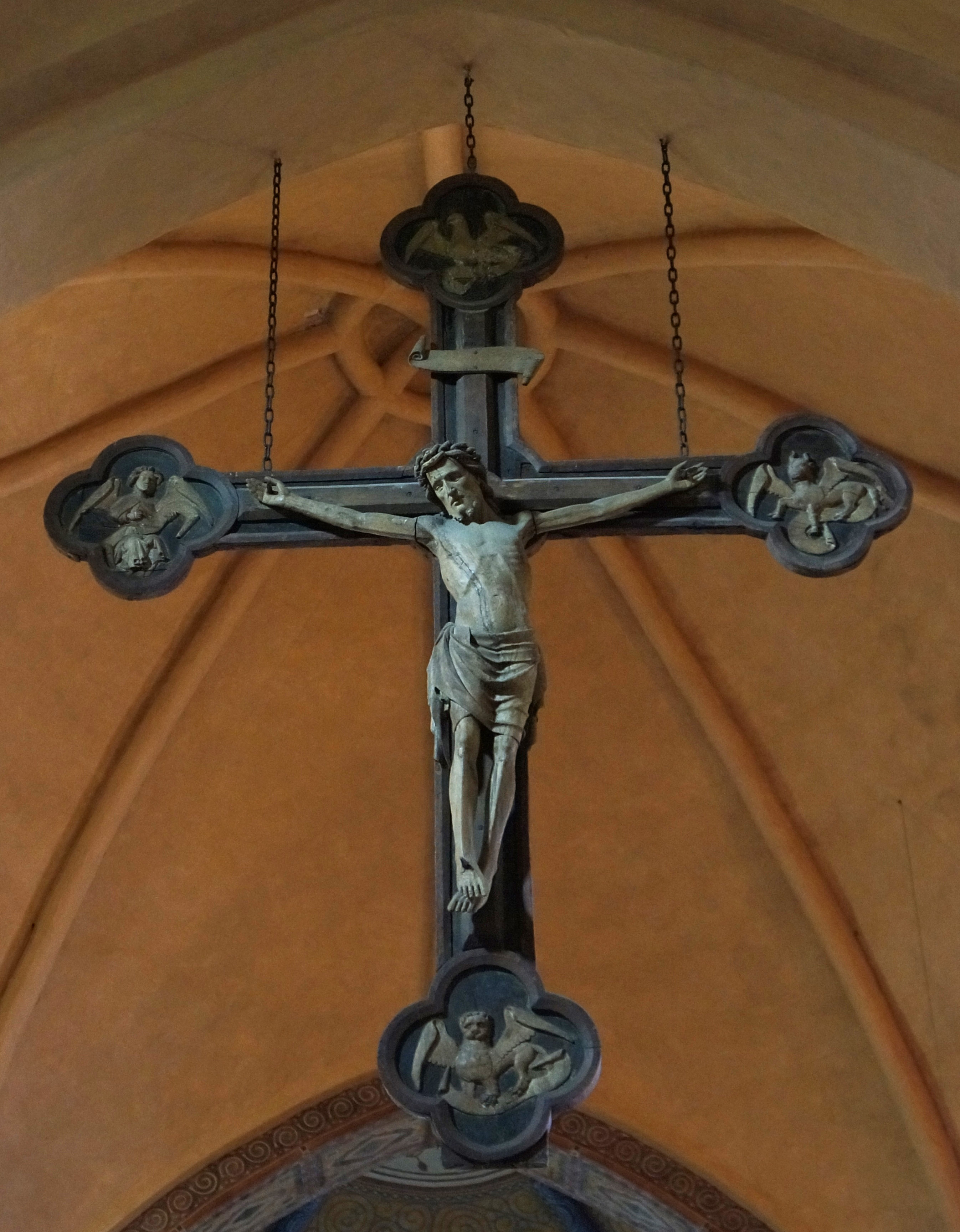 Crucifix in the Alexander Church in Wildeshausen